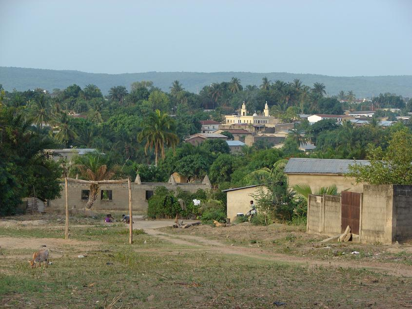 View on Kpangalam - Sokodé - Togo